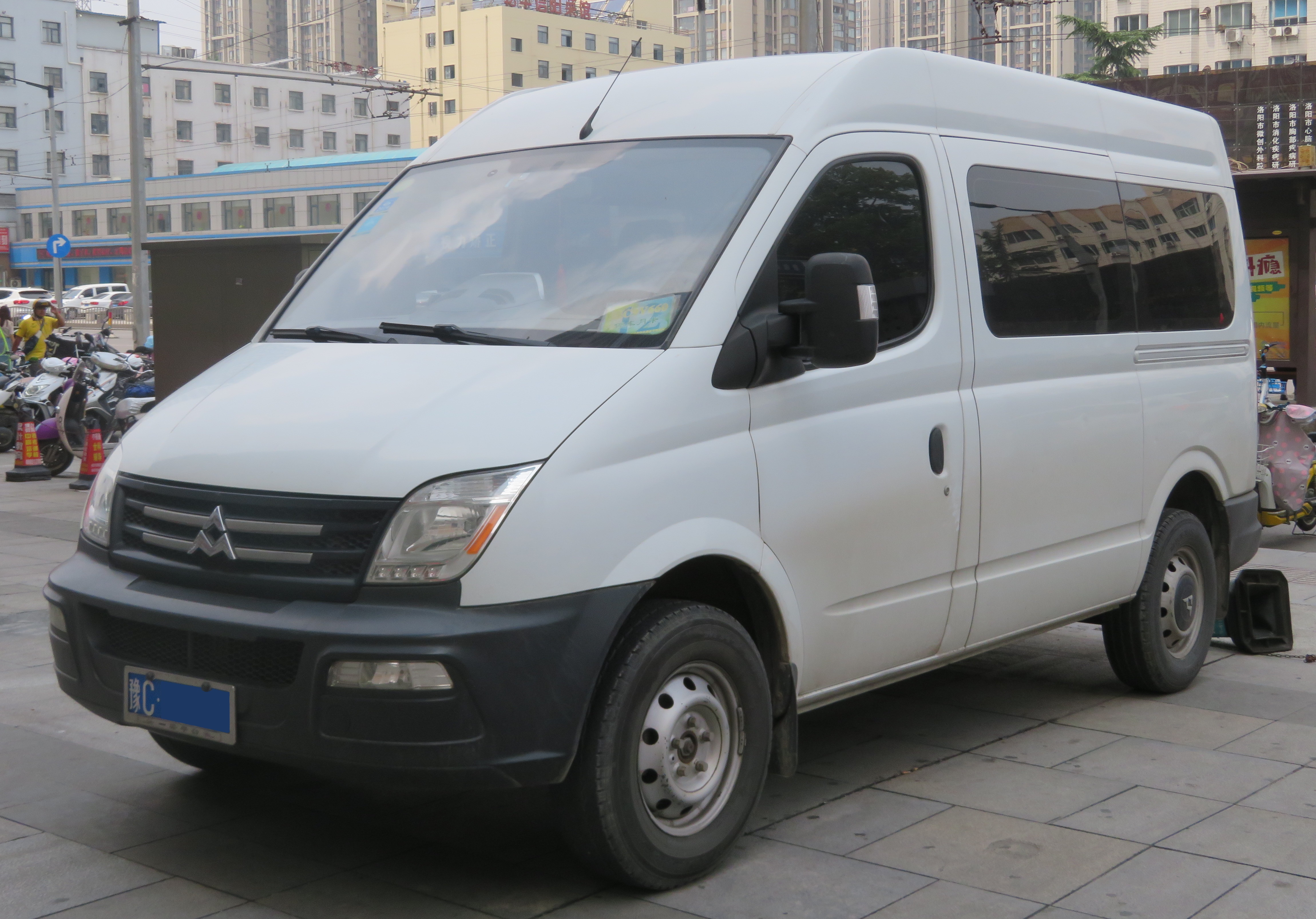 Photographed in Luoyang, Henan province, China